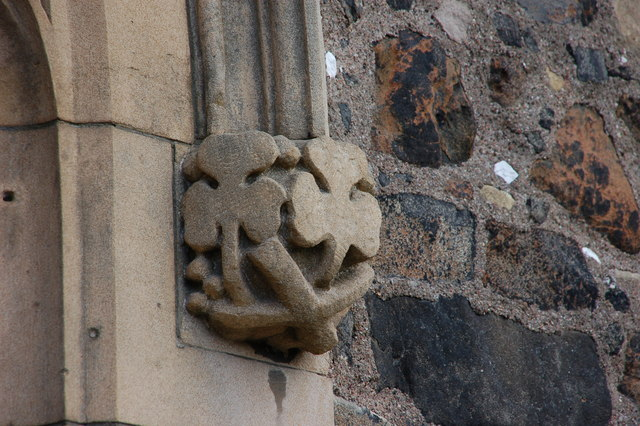 St Nicholas's, Carrickfergus (detail) (2) See 402828. This seems to be shamrock.